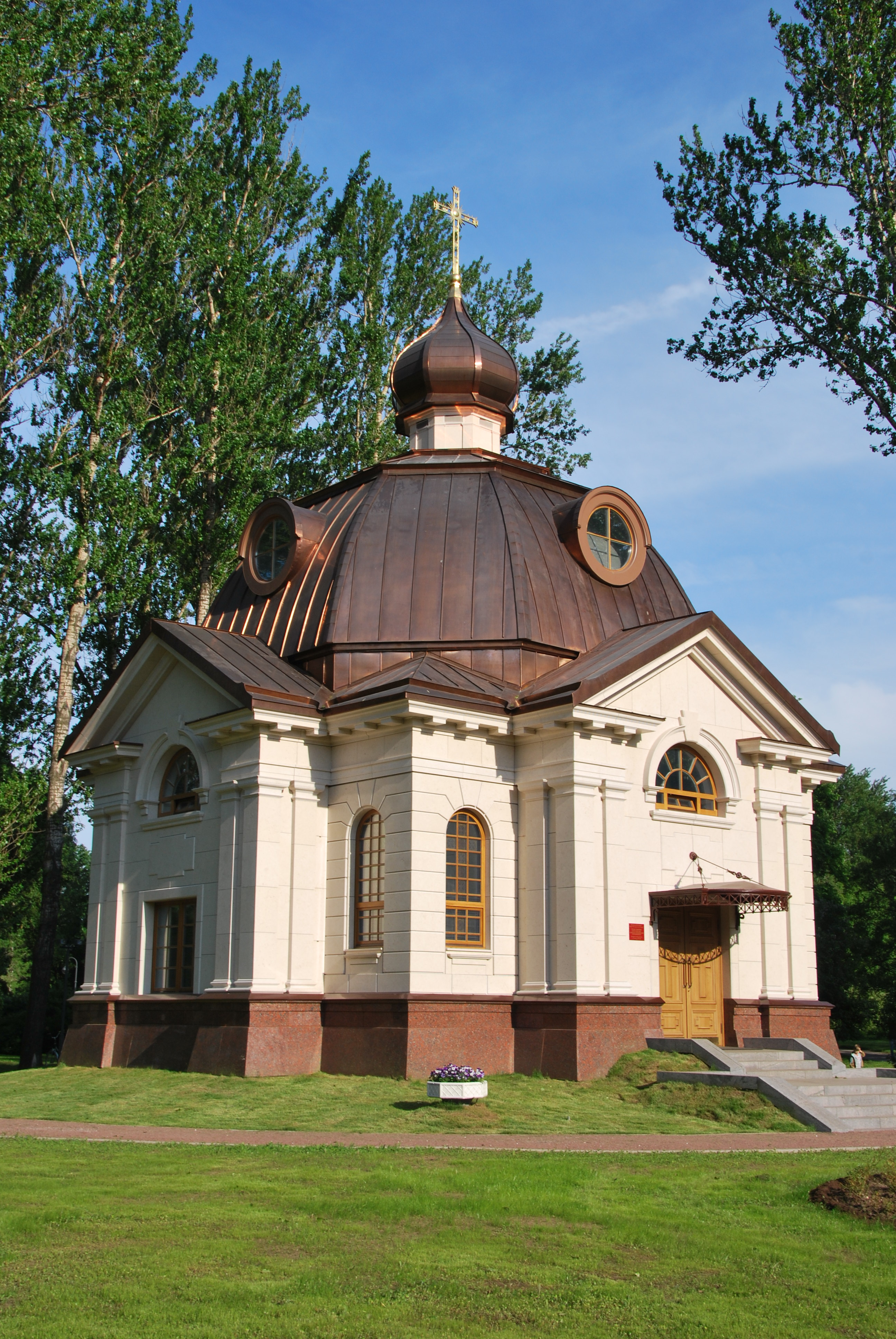 "Temporary" chapel in Moskovskiy Park Pobedy